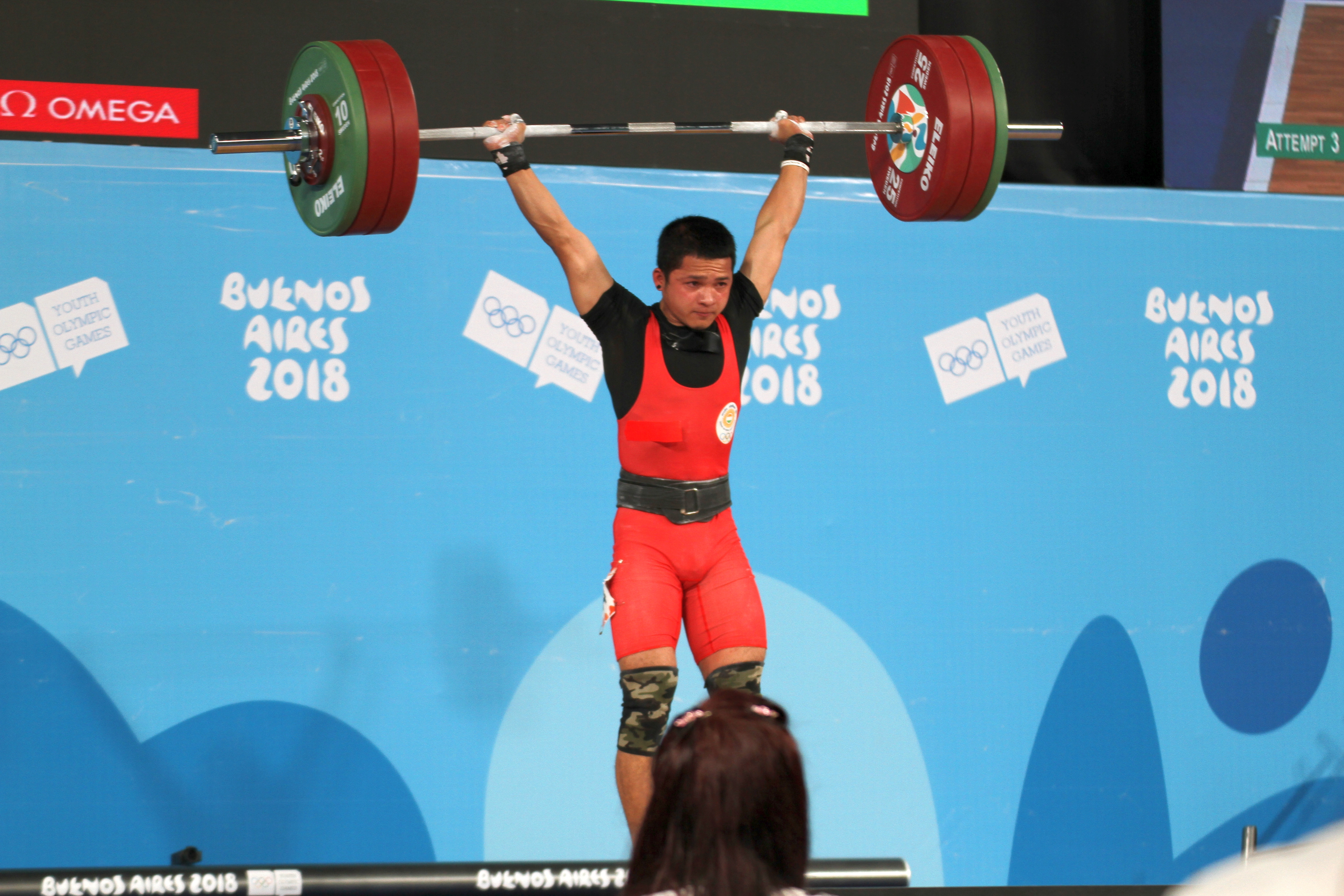 Weightlifting at the 2018 Summer Youth Olympics at 8 October 2018 – Boys' 62 kg